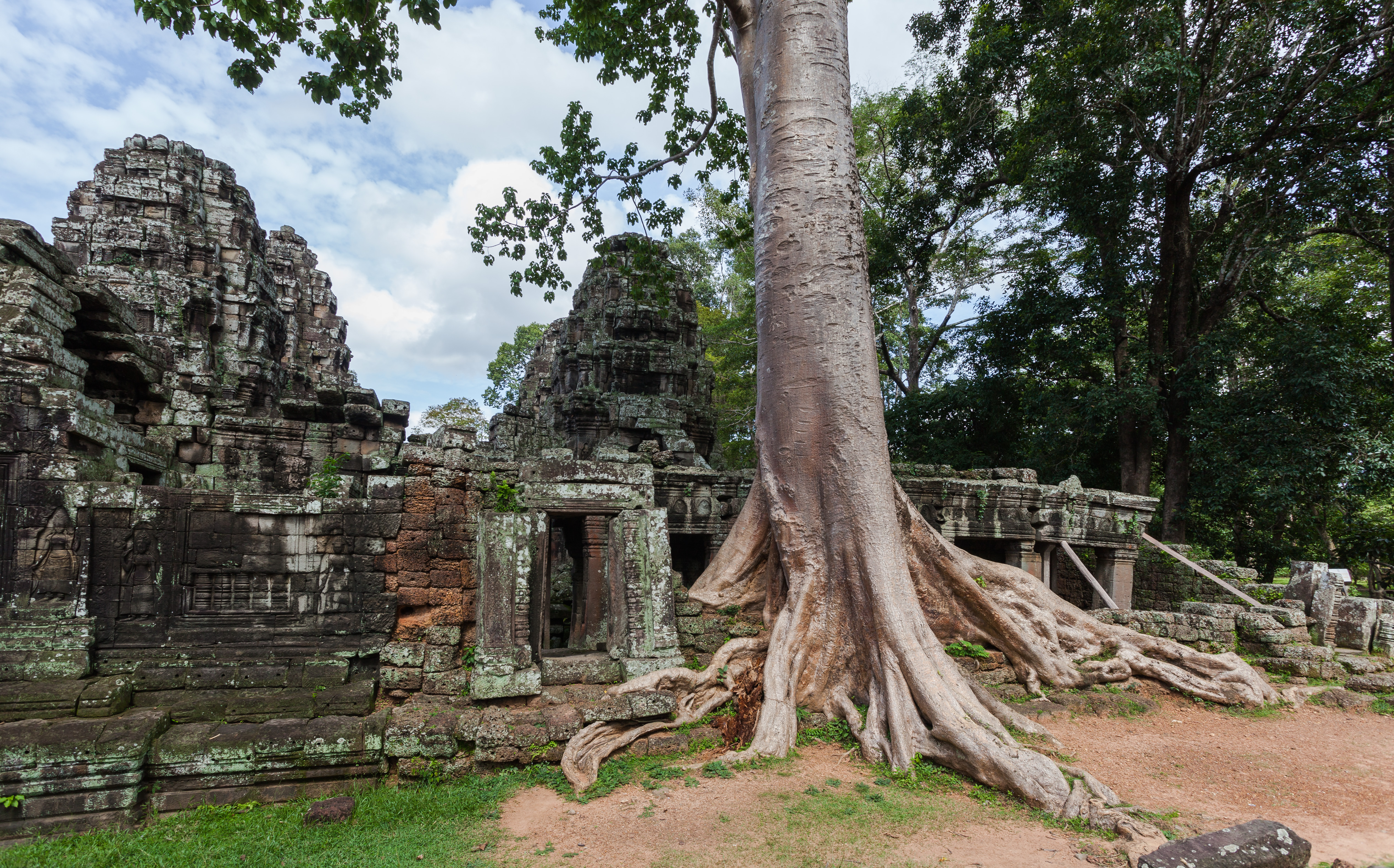 Banteay Kdei, Angkor, Cambodia